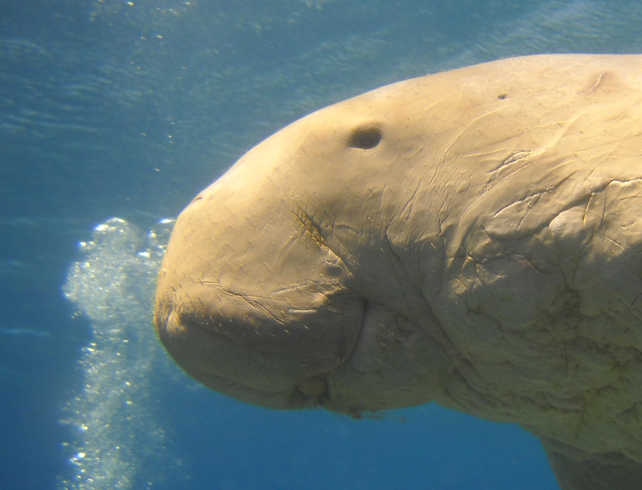 The head of Dugong dugon